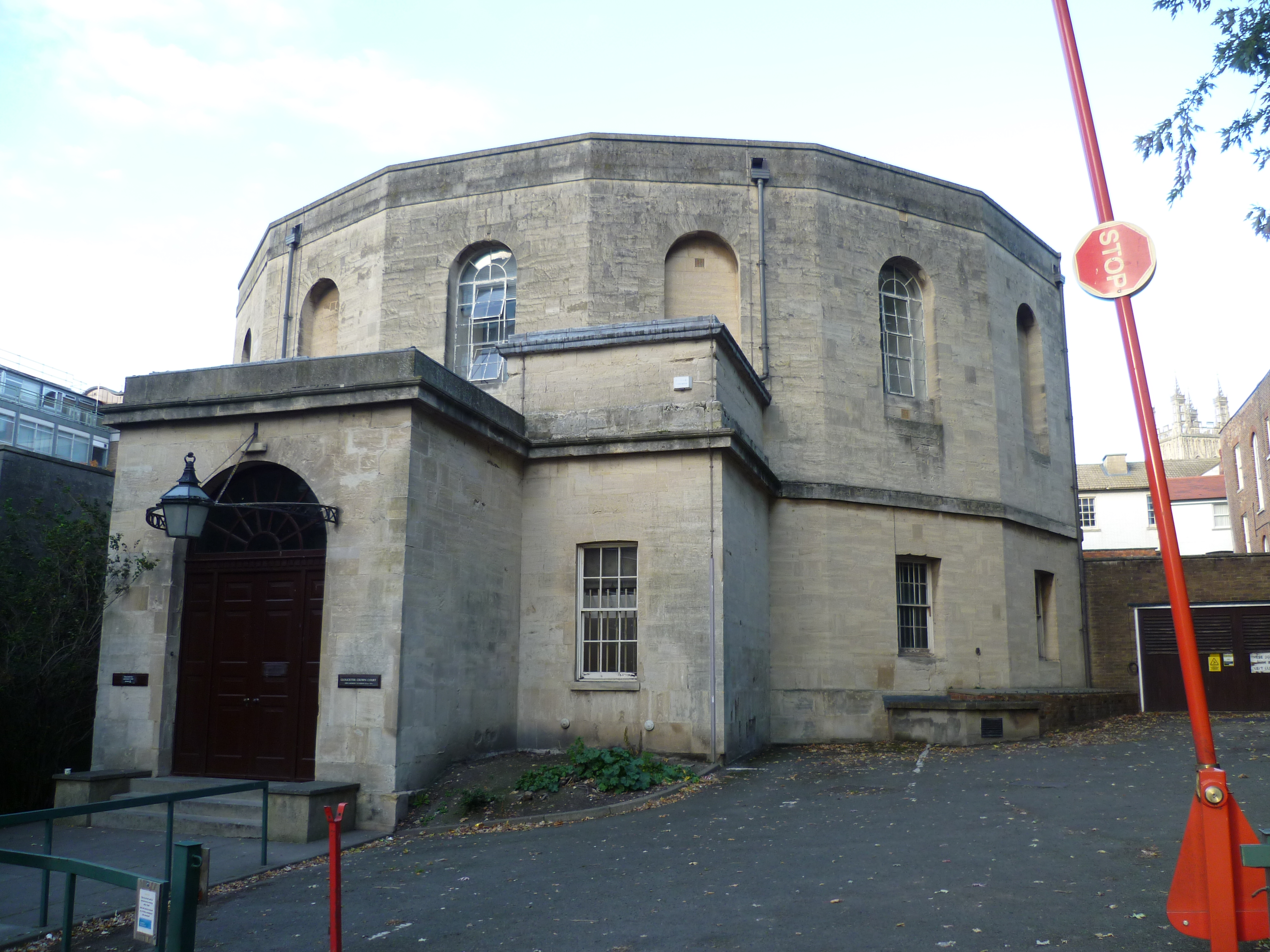 Gloucester Crown Court